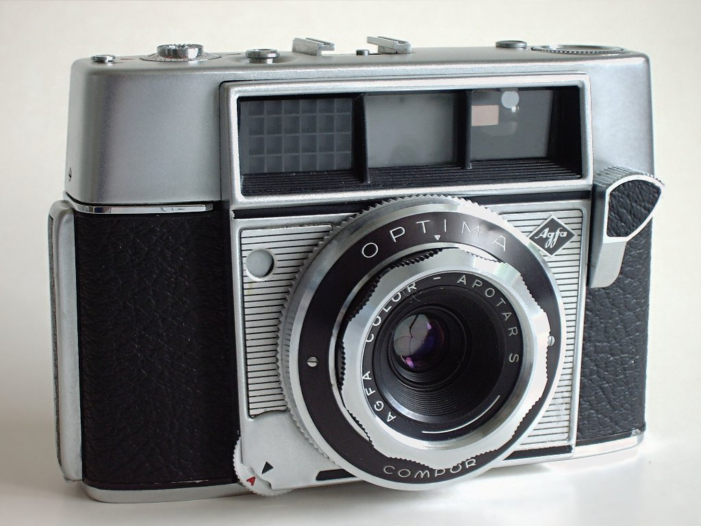 Agfa Optima camera. First 35mm camera with automatic-exposure.